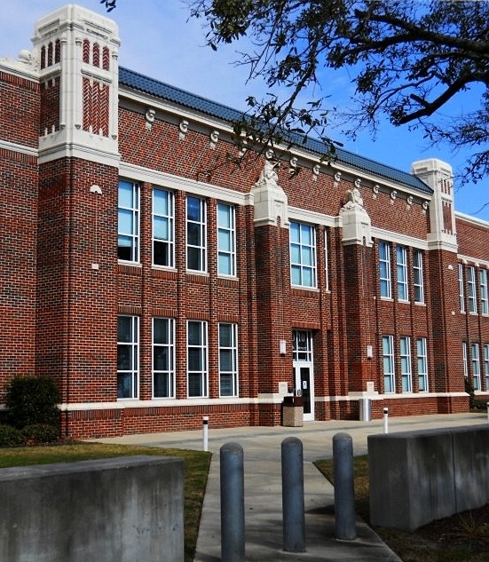 Front entrance of the old Gulfport High School, Gulfport, Mississippi, USA. The building is now part of the Dan M. Russell, Jr. United States Courthouse complex.